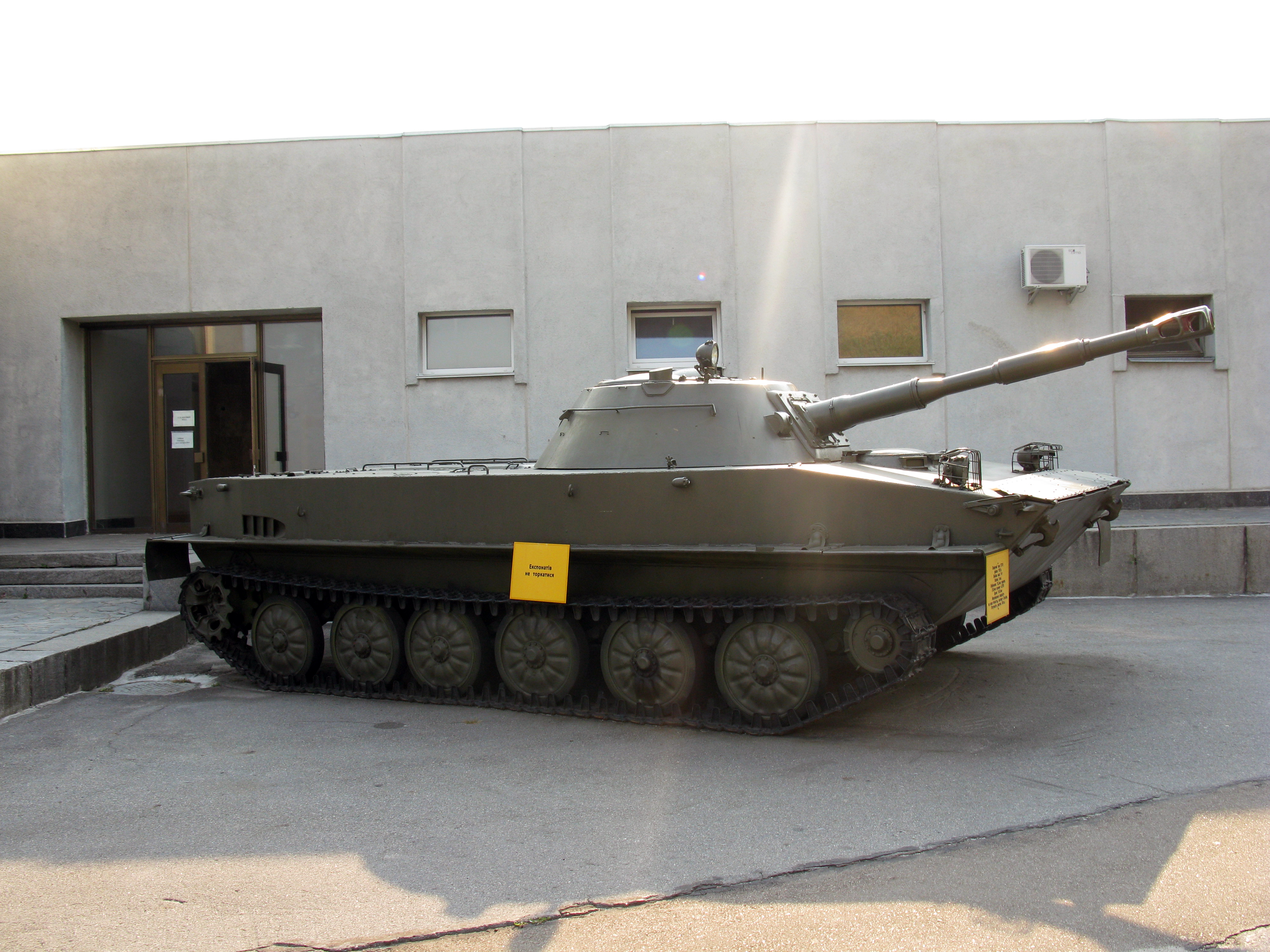 PT-76 at the National Museum of the Great Patriotic War in Kiev, Ukraine. Early model, with lower hull, but modrnized D-56TM gun.